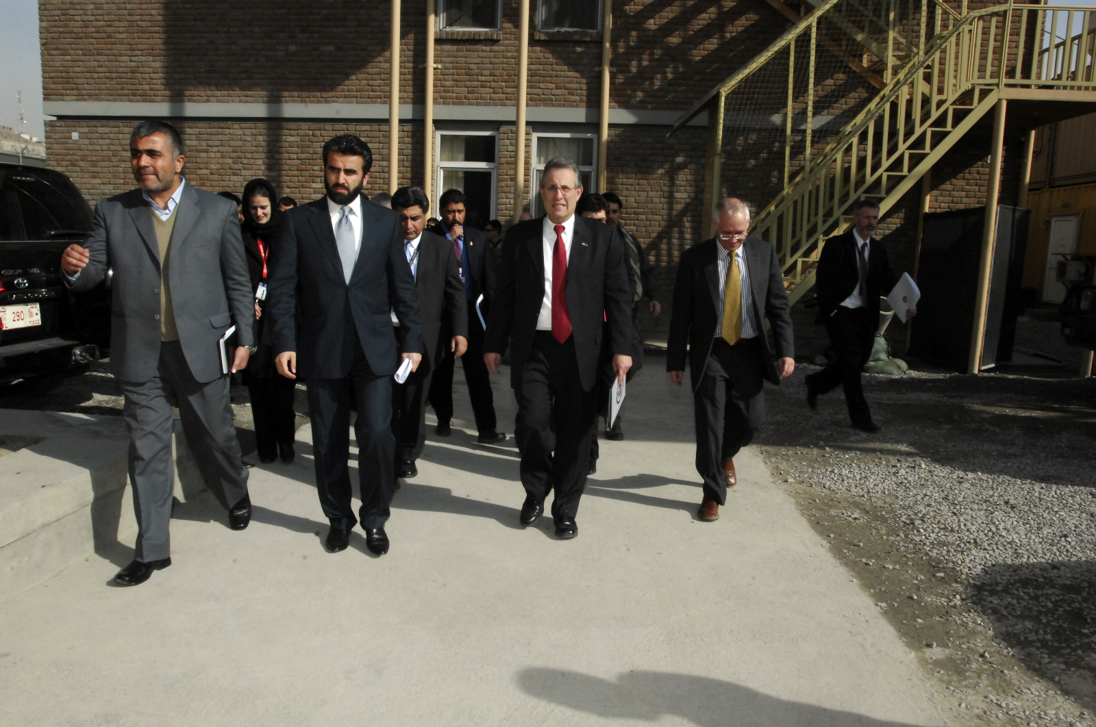 Canadian Ambassador William Crosbie and United States Coordinating Director for Economic and Development Affairs Ambassador E. Anthony Wayne joined Minister of Finance H.E. Dr. Omar Zakhilwal for the opening of the Afghan National Customs Academy (ANCA).